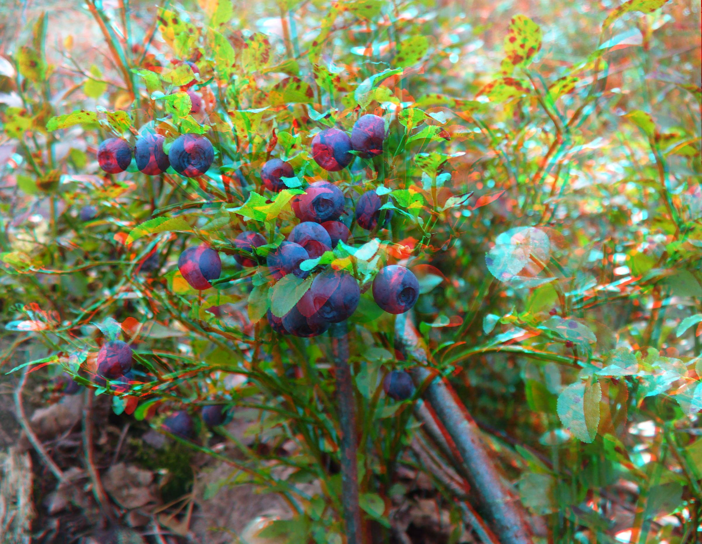 Anaglyph of bilberry